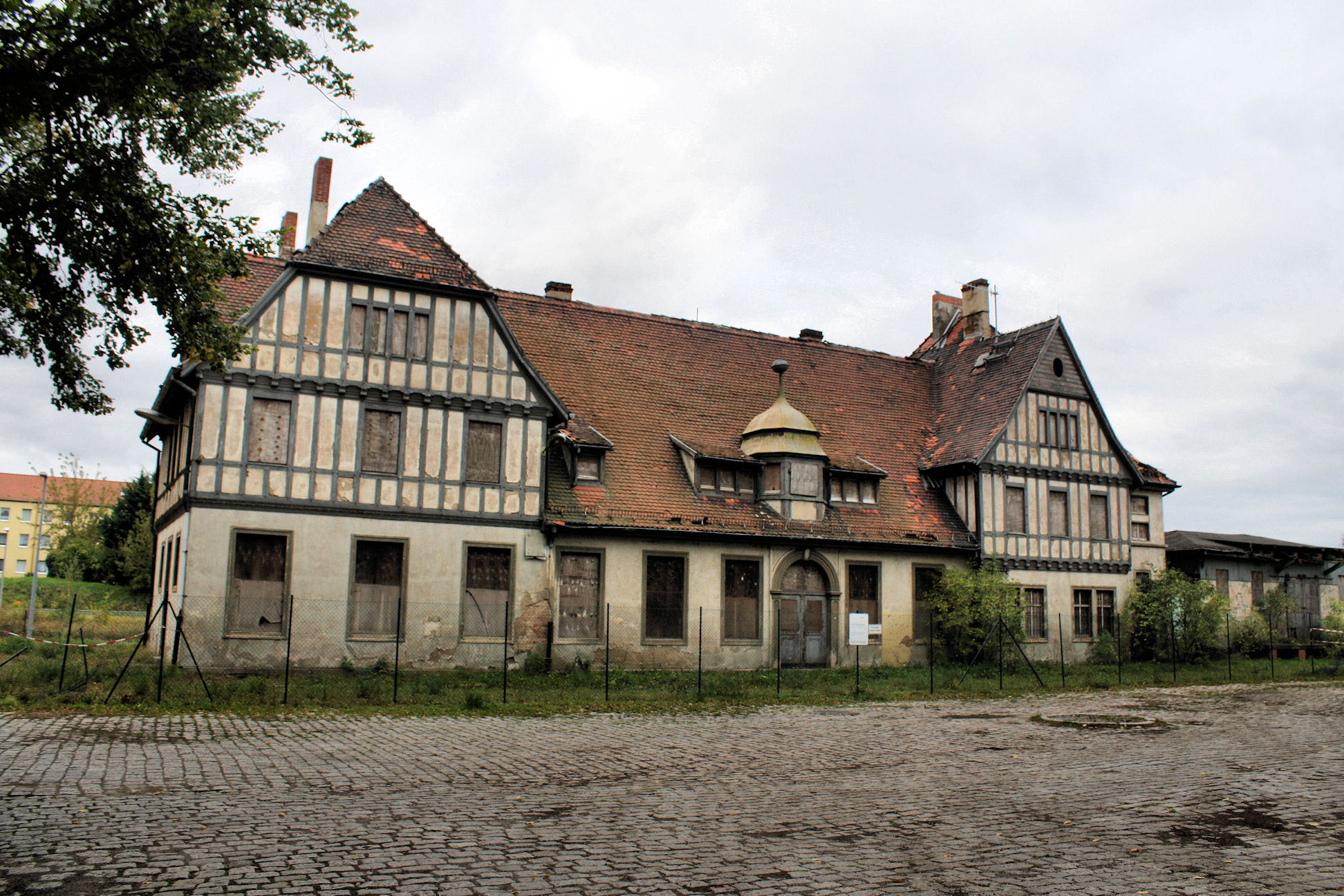 The old railway station building. As can be seen it's in a sorry state – but why did such a small village ever merit such a grand railway station as this?